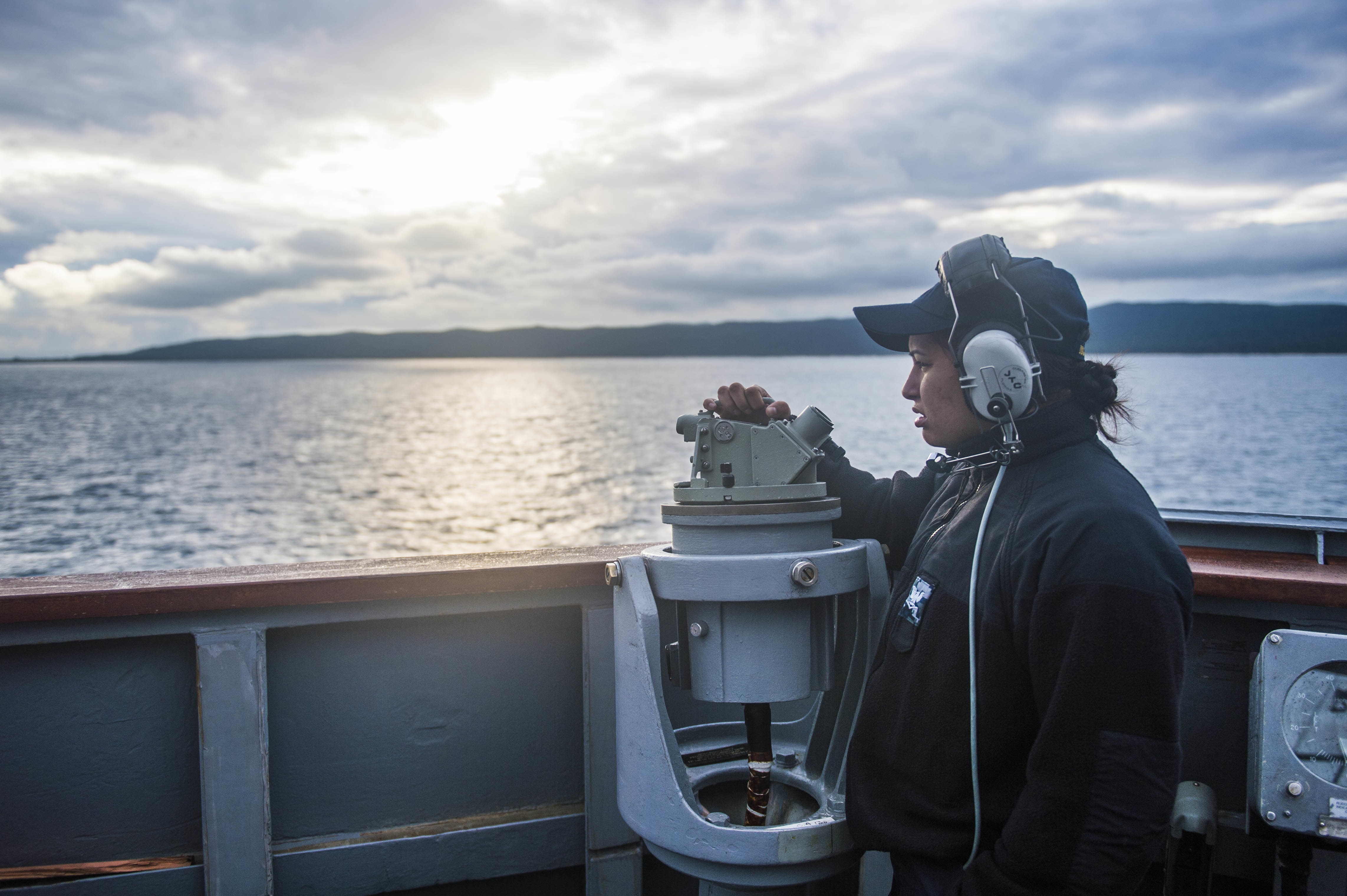 150625-N-XM324-031 BRISBANE, Australia (June 25, 2015) Quartermaster 3rd Class Christina Casillas, from San Antonio, Texas, uses a sound-powered telephone while taking a navigational bearing on the bridge of the Arleigh Burke-class guided-missile destroyer USS Fitzgerald (DDG 62) as the ship arrives in Brisbane for a port call. Fitzgerald is on patrol in the U.S. 7th Fleet area of responsibility supporting security and stability in the Indo-Asia-Pacific region. (U.S. Navy photo by Mass Communication Specialist 3rd Class Patrick Dionne/Released)